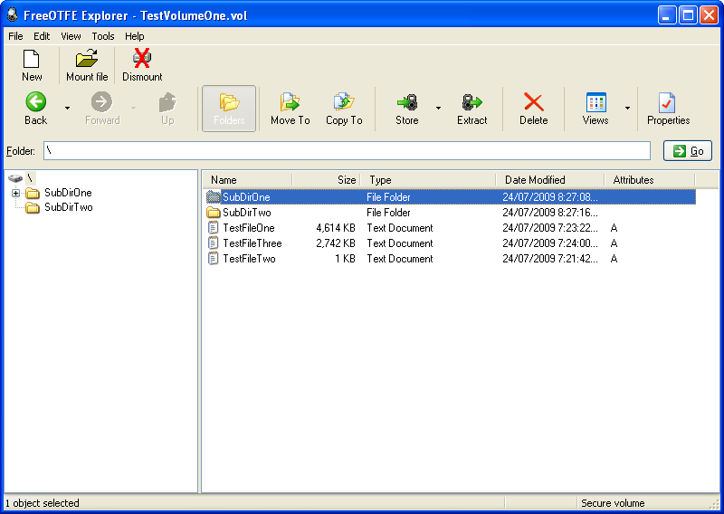 Screenshot of FreeOTFE Explorer